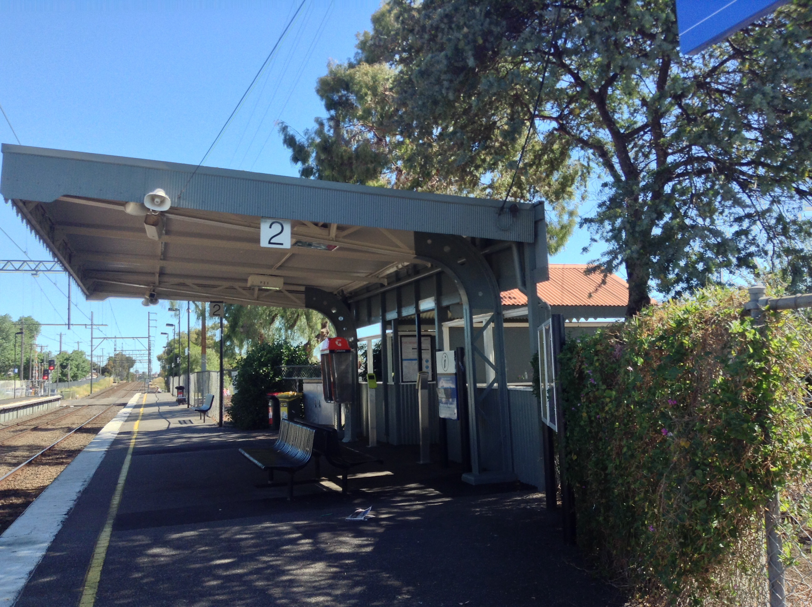 The weatherboard/brick building